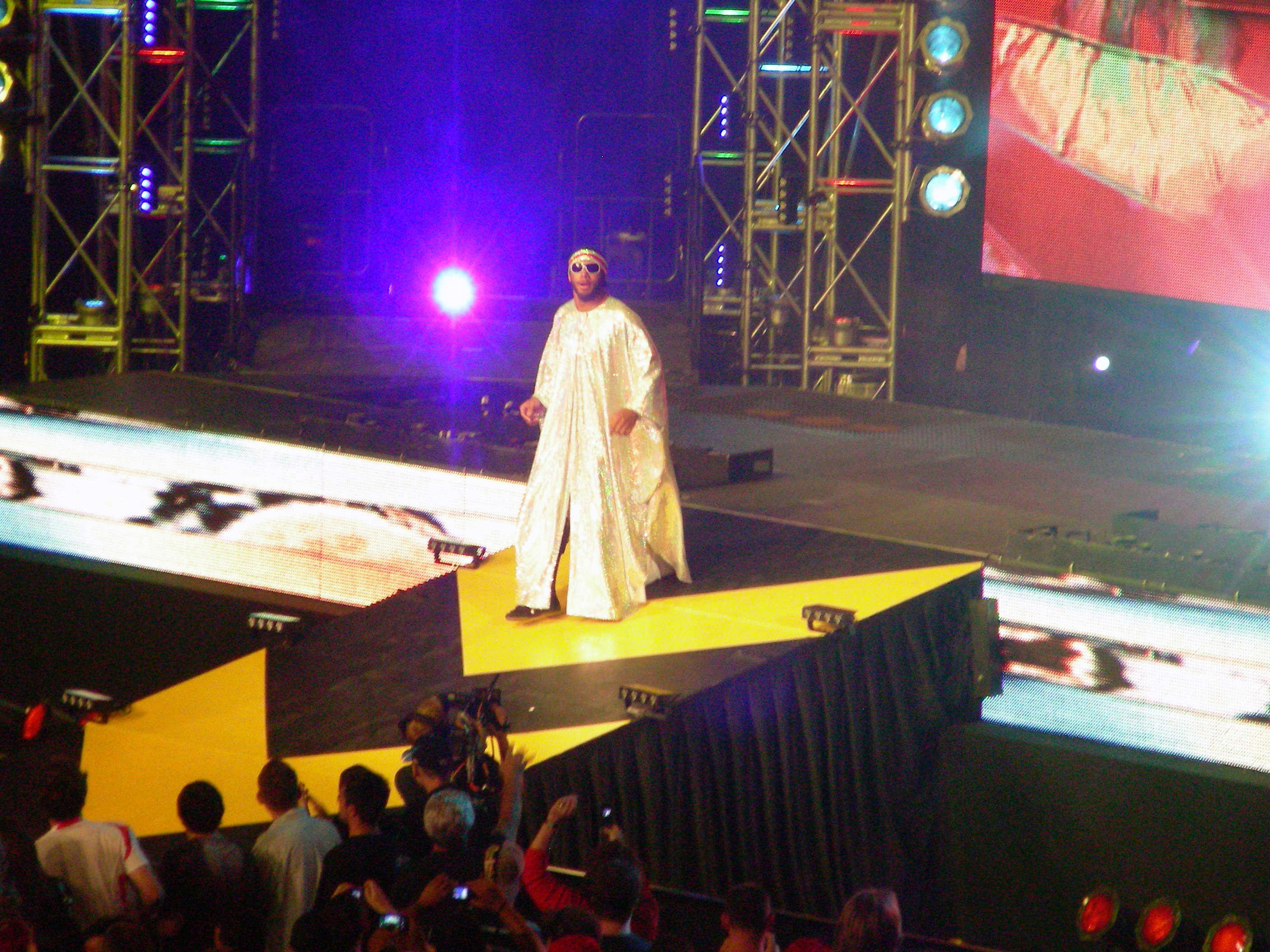 the LETHAL in LETHAL CONSEQUNCES makes his enterance... JAY LETHAL!